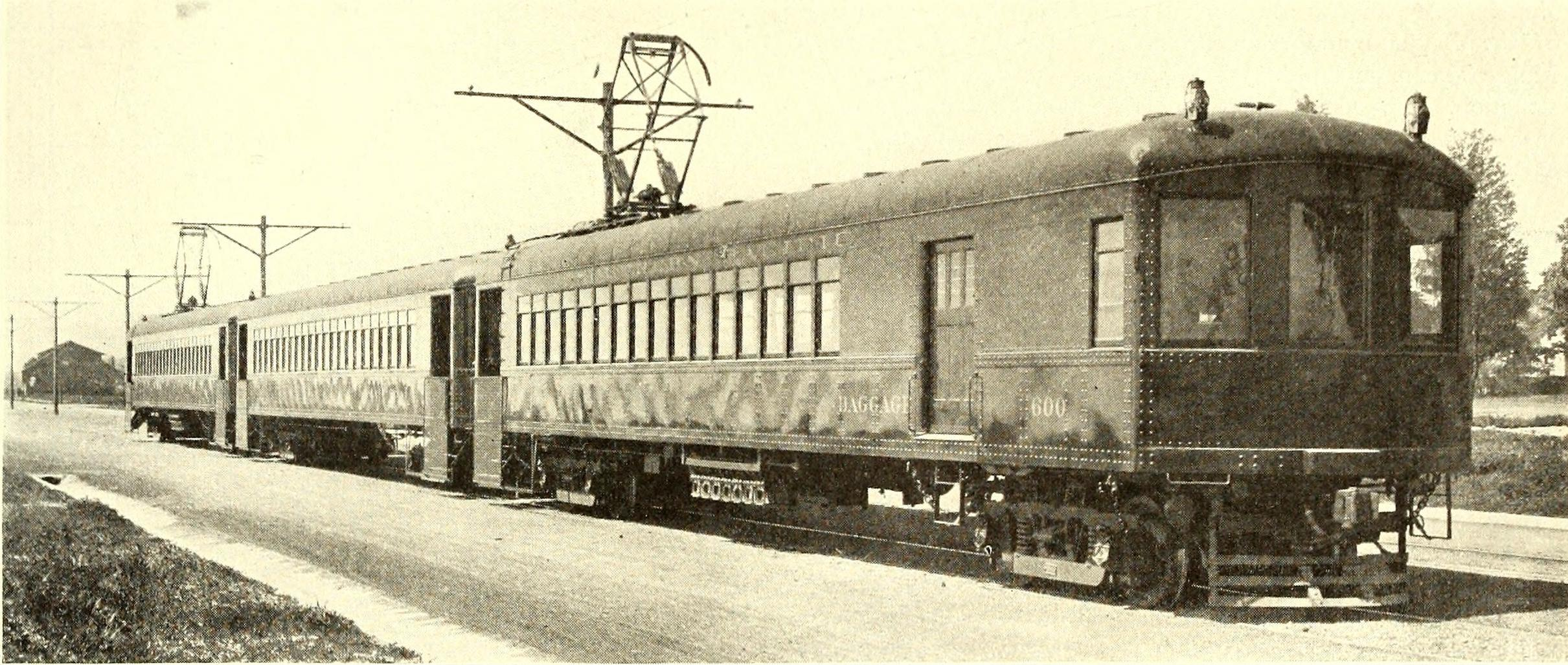 Title: Electric railway journal Year: 1908 (1900s) Authors: Subjects: Electric railroads Publisher: (New York) McGraw Hill Pub. Co Text Appearing Before Image: Southern Pacific Electrification—Platform Gates andCouplings are rolled steel 33 in. in diameter. The motor trucks weigh15,000 lb. without motors and the trailer trucks weigh 10,000 lb. WEIGHT The motor coaches when completely equipped and ready forservice weigh 109,400 lb. and the trailer coaches weigh 67,200lb. The weight per passenger seat, based on the combined seat- Text Appearing After Image: Southern Pacific Electrification—Repair Shops at West Alameda 1052 ELECTRIC RAILWAY JOURNAL. (Vol. XXXVII. No. 24. ing capacity and weights of a motor coach and a trailer coach,is 761 lb. Omitting the weight of the seats, draft gear and springbuffers the car bodies alone weigh only 47 lb. per square footof floor area, or 486 lb. per linear foot. BRAKES AND MOTORS The cars are equipped with Westinghouse pneumatic trainsignals and schedule A M L automatic air brakes having thefeatures of quick service, quick recharge, graduated release andhigh pressure in emergency applications. The air brake com-pressor is operated by a motor wound for 1200 volts. It has acapacity of 35 cu. ft. of free air per minute and is controlled byan automatic governor, which maintains the main reservoirpressure between 85 lb. and 100 lb. Each of the motor cars is equipped with four GE-207-A mo-tors of 125 hp each. The motors are geared to give a maximumspeed of 40 m.p.h., although the schedule speed is only 20